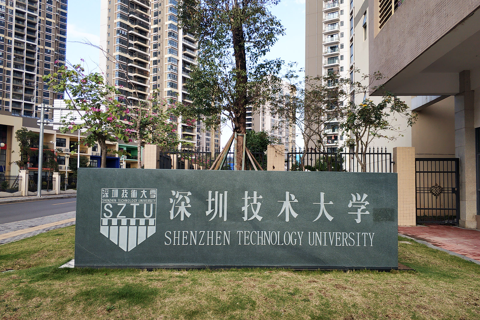 Stone monument of SZTU